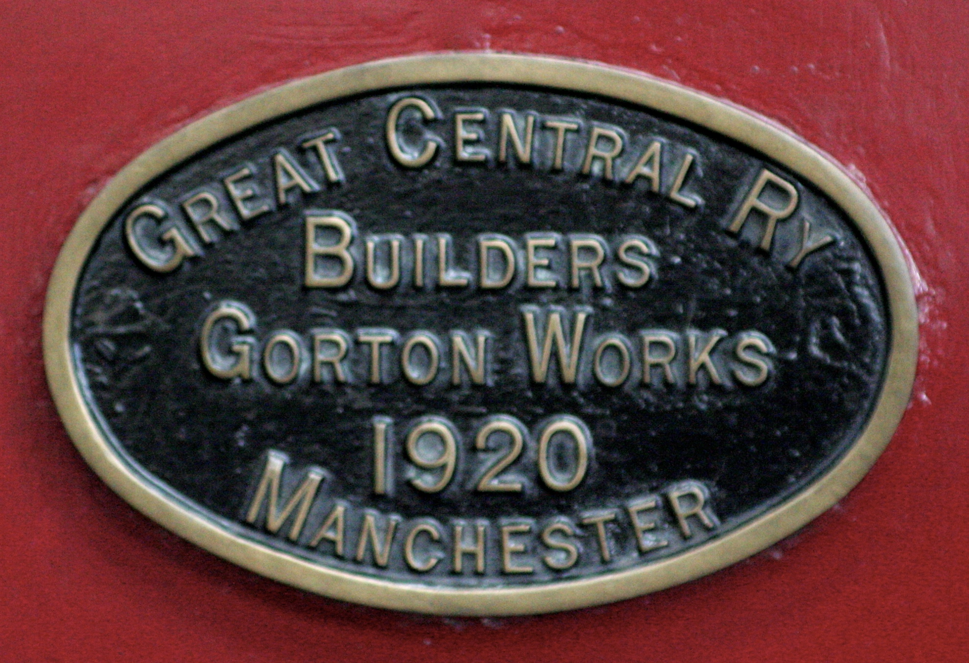 Great Central Railway Gorton Works builder's plate on Director class (GCR class 11F / LNER class D11) locomotive 62661